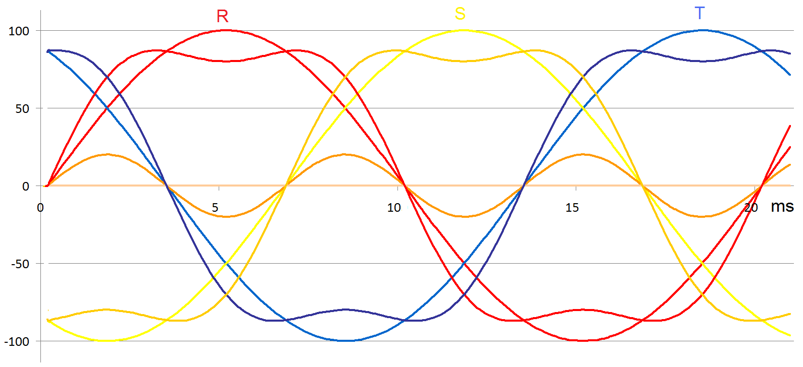 A three-phase current with 20% of harmonic 3